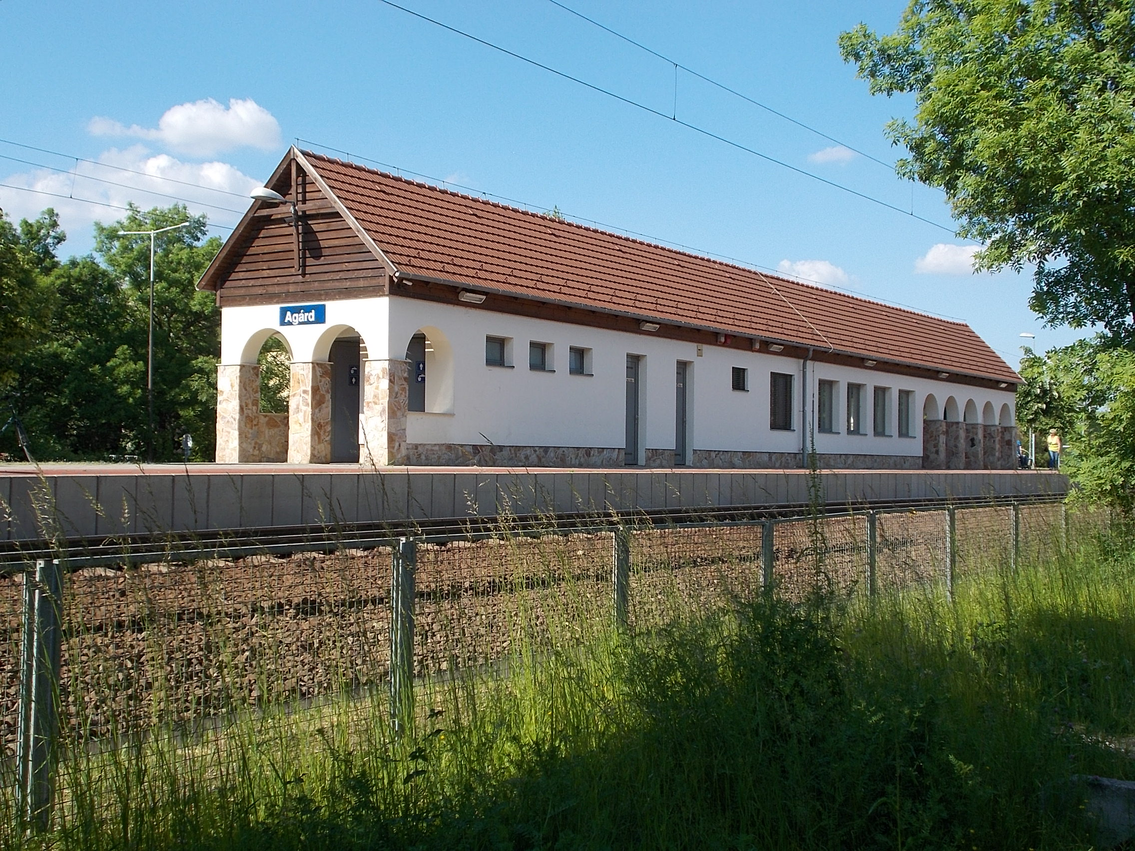 Agárd railway station from Vasút Street, Agárd, Gárdony, Fejér County, Hungary.